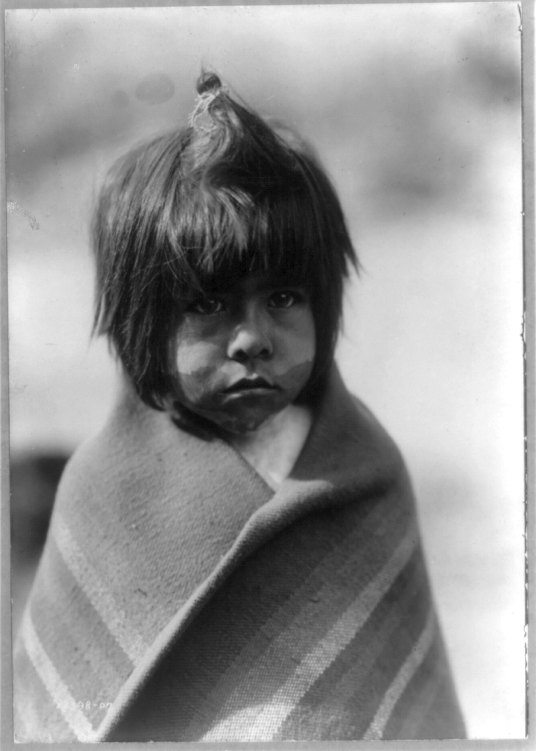 Chemehuevi boy, Arizona. Indian boy, half-length portrait, standing, facing right; wearing blanket.